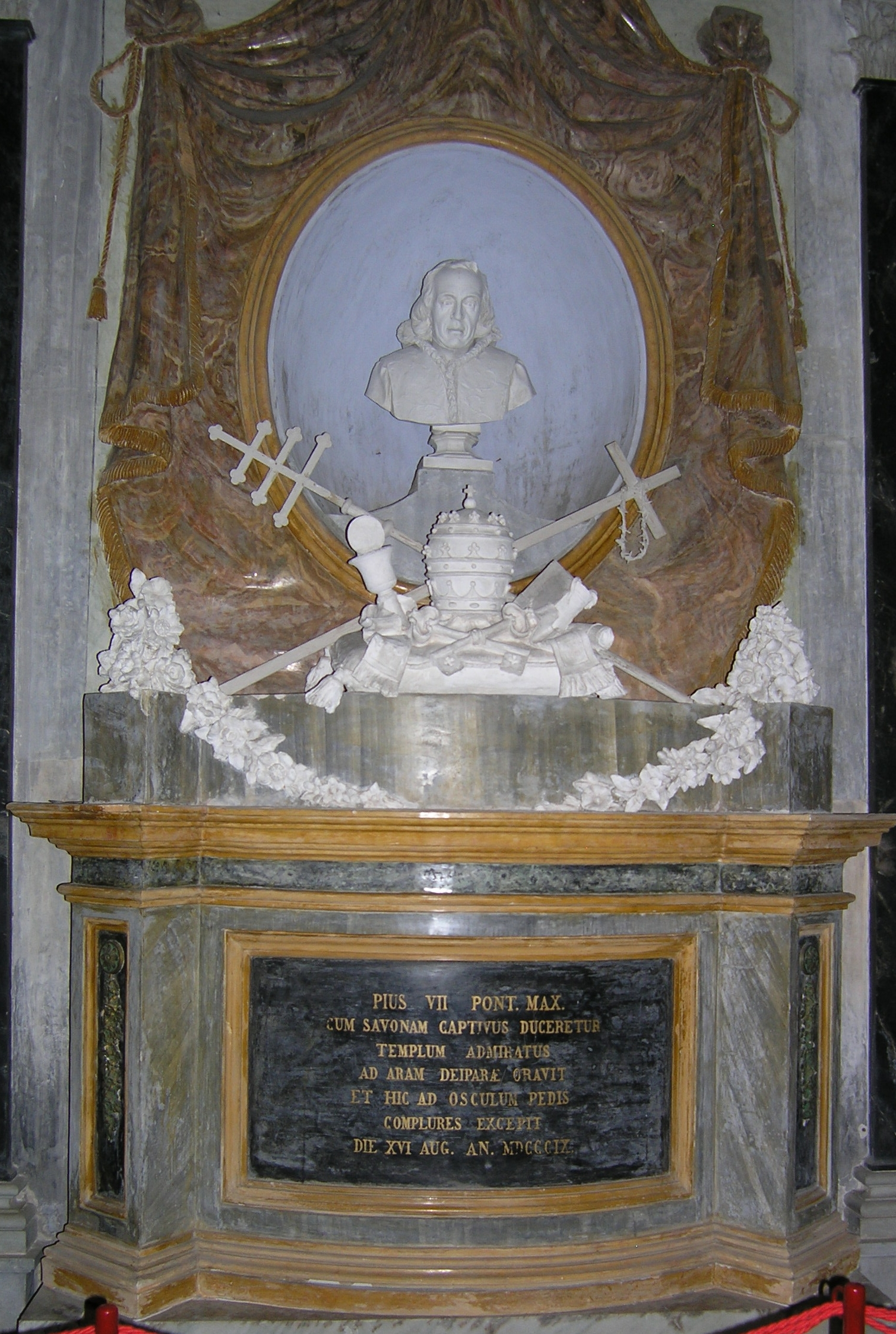 Monument to Pope Pius VII at the sanctuary of Vicoforte, Vicoforte (Italy)